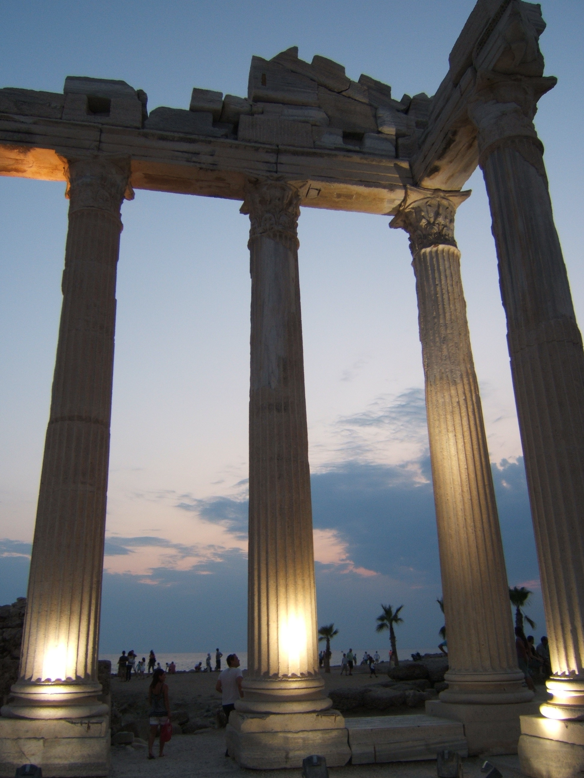 Temple Of Apollo in Side